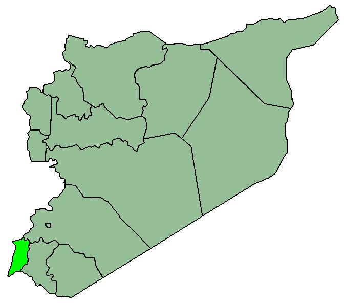 The Syrian governorate of al-Quneitra.